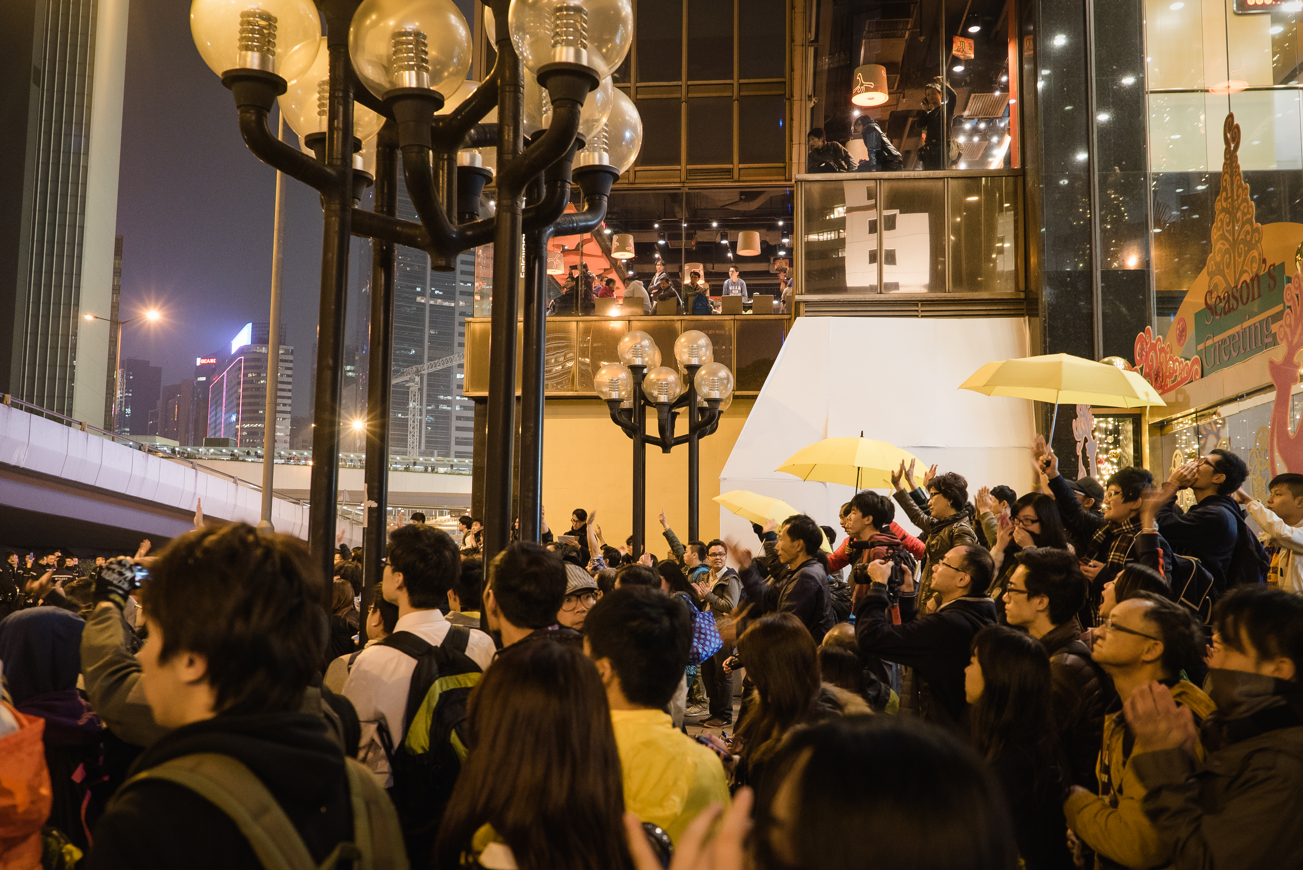 Protesters located in Far East Financial Centre